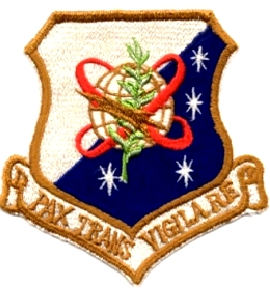 4200th Strategic Reconnaissance Wing Scan of Official Unit Emblem from personel collection